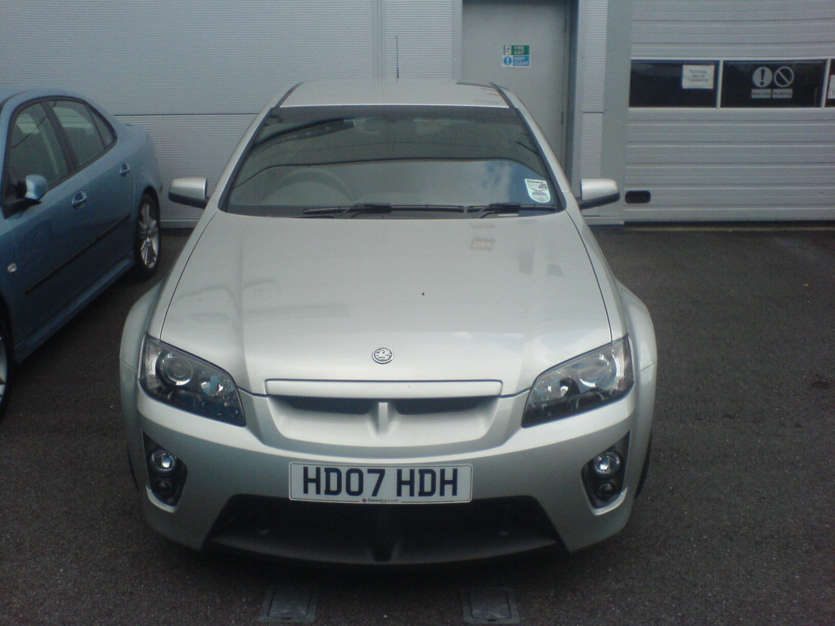 2007 Vauxhall VXR8, photographed in England.